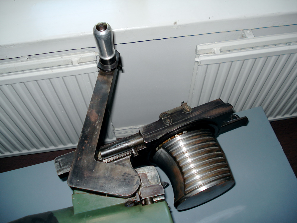 Barrel from Finnish 105 mm H37 howitzer joined to a modified breech from Russian 122 mm M1910 howitzer, displayed in Hämeenlinna Artillery Museum. This section of the gun was used for demonstration purposes.